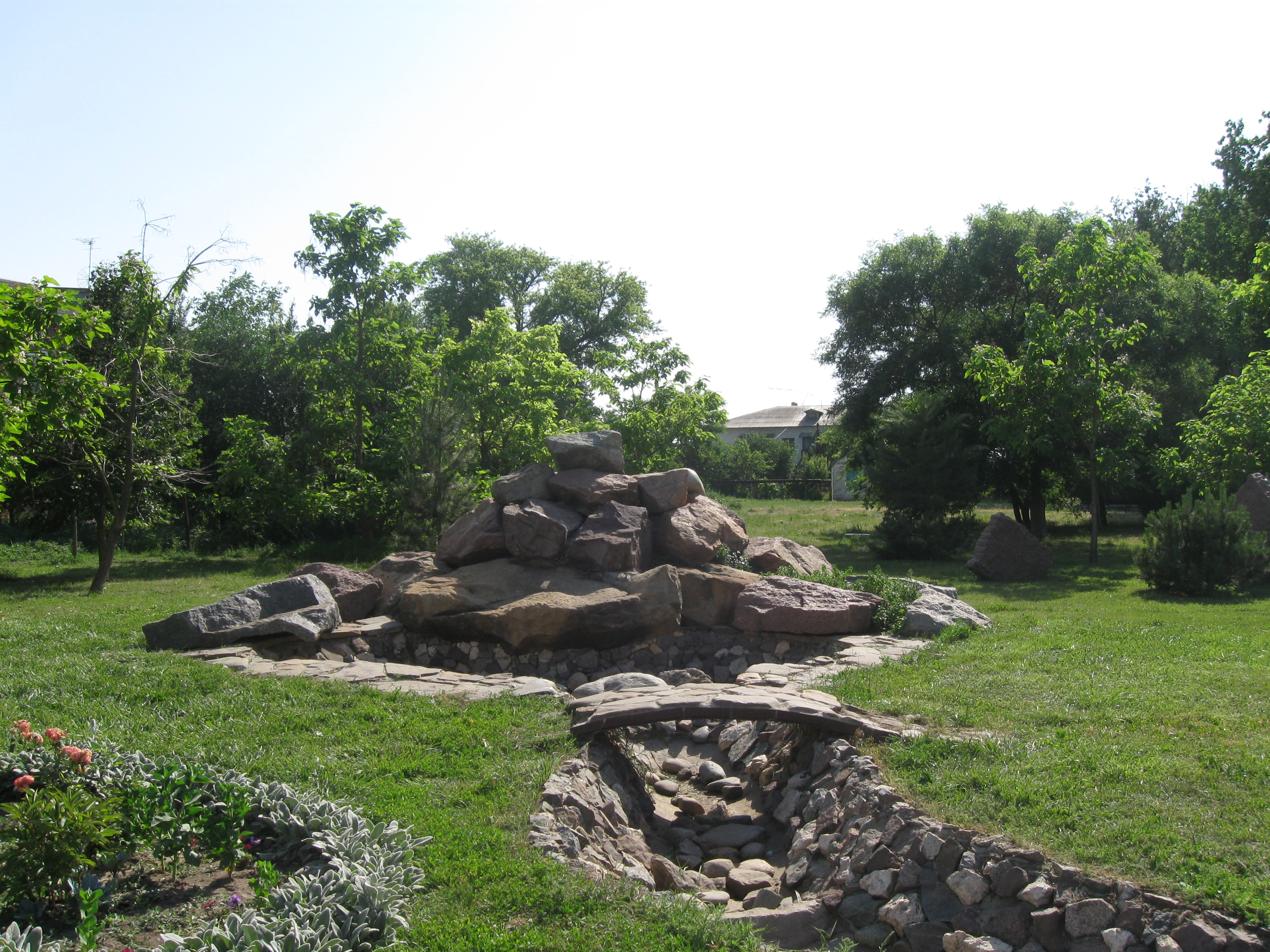 Balaya Glina . Russia